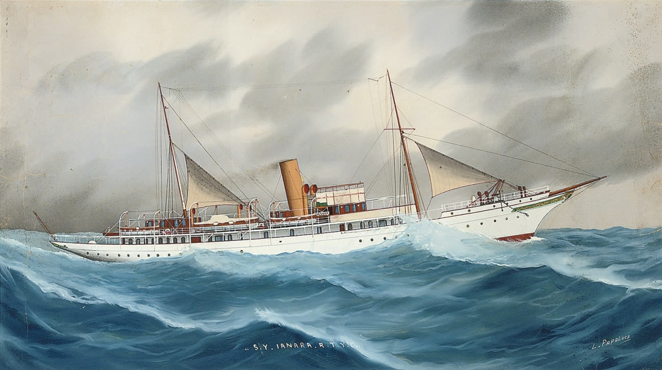 The „Ianara“ was originally known as turbine yacht TS Vanadis was designed by Clinton Crane of Tams, Lemoine & Crane in New York, built at A. & J. Inglis, Pointhouse, Glasgow and launched in 1908. She was ordered by Mr. C.K.G. Billings of New York.